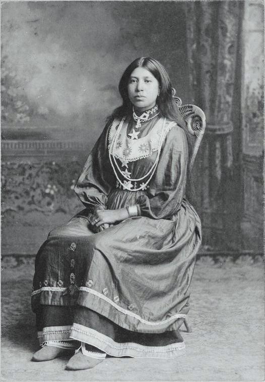 'Portrait of Nancy Johnston' ~ (Mohawk) ~ King's Studio, Hamilton 1890